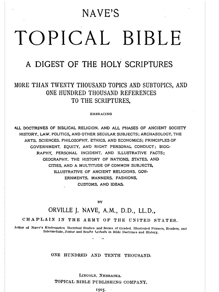 Book cover